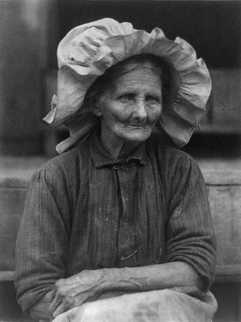 Old woman in sunbonnet by American photographer Doris Ulmann (1884-1934)